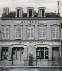 Café - Restaurant at VIGY France - 1907